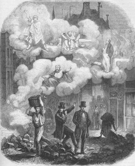 An illustration from Jules Verne's essay "Edgard Poë et ses oeuvres" (Edgar Poe and his Works,1862) drawn by Frederic Lix or Yan' Dargent.